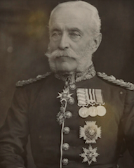 General Lord William Frederick Ernest Seymour KCVO (8 December 1838 – 9 February 1915), known as William Seymour until 1871, General and Colonel-in-Chief of the Coldstream Guards.